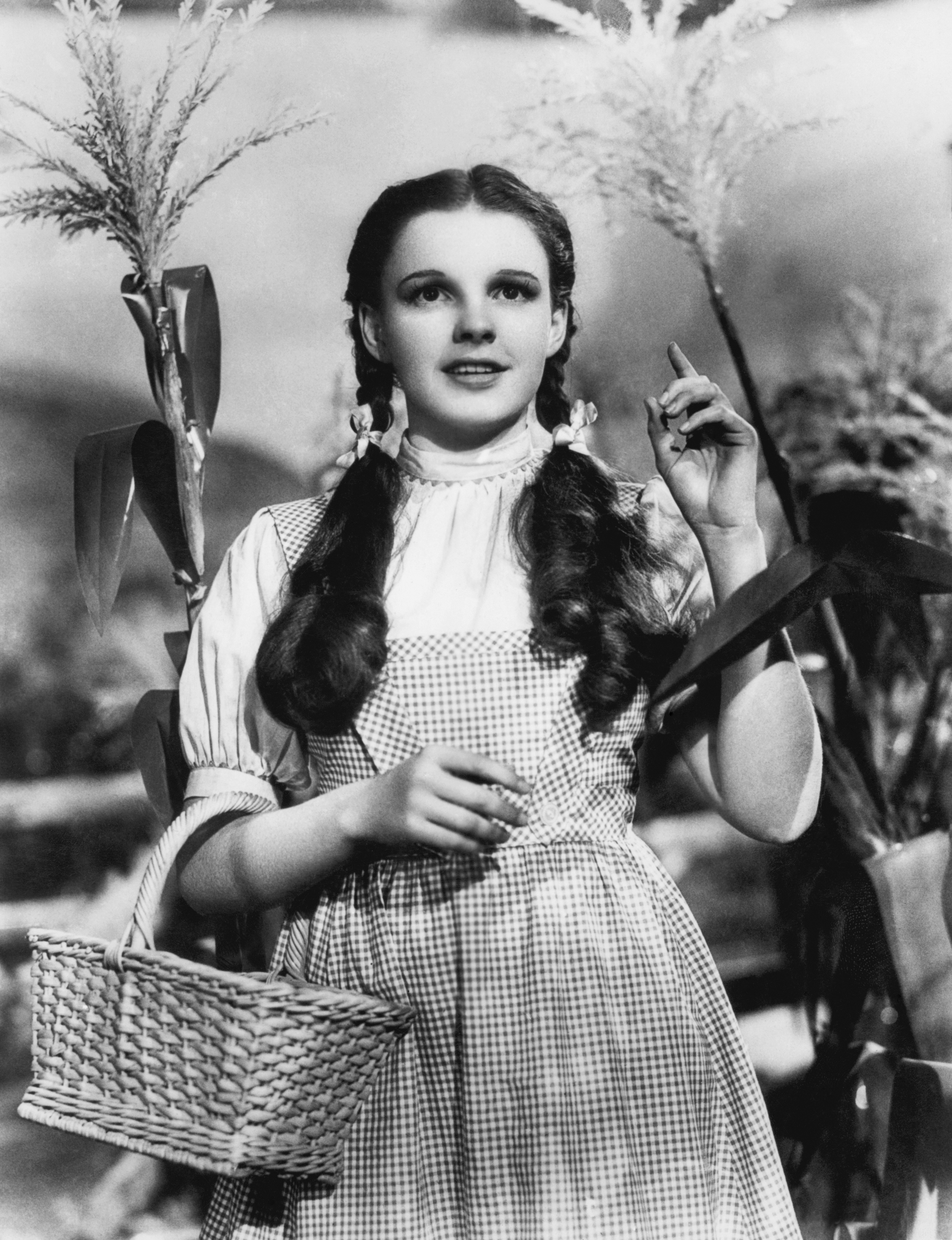 Publicity photo of American entertainer, Judy Garland as Dorothy Gale promoting the Sunday March 20, 1977 CBS television broadcast of the 1939 MGM feature film The Wizard of Oz.